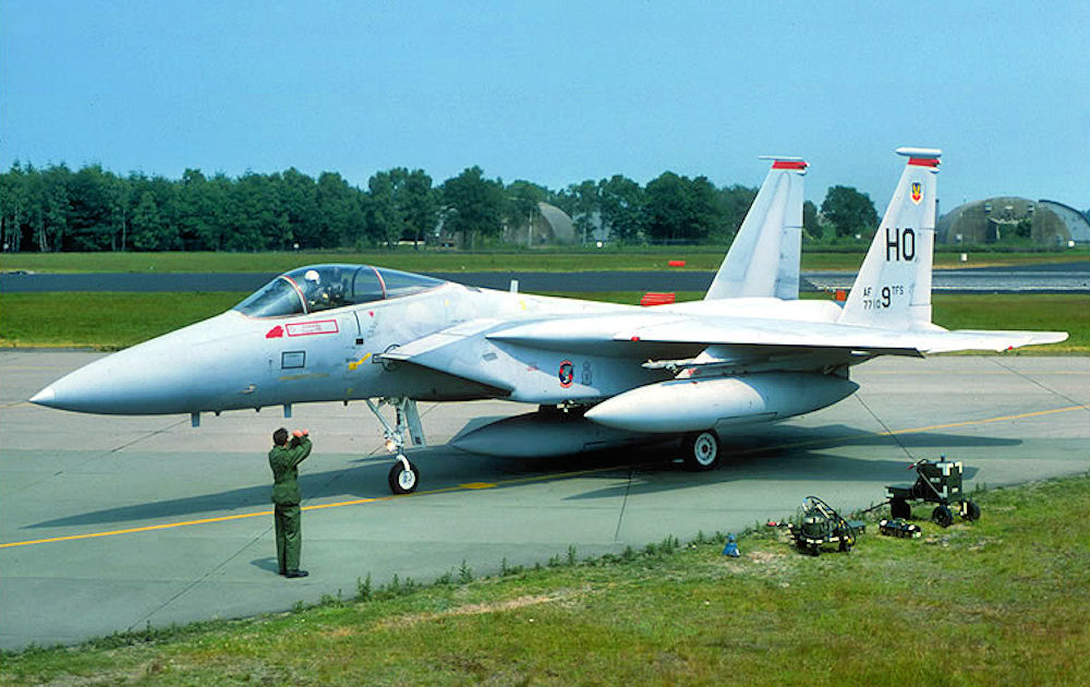 McDonnell Douglas F-15A-19-MC Eagle 77-0110 9th Tactical Fighter Squadron, 49th Tactical Fighter Wing, Taken at RAF Alconbury, England c/n 0395/A322. To AMARC as FH0181 Oct 3, 2007. Still on AMARC inventory Jan 15, 2008.